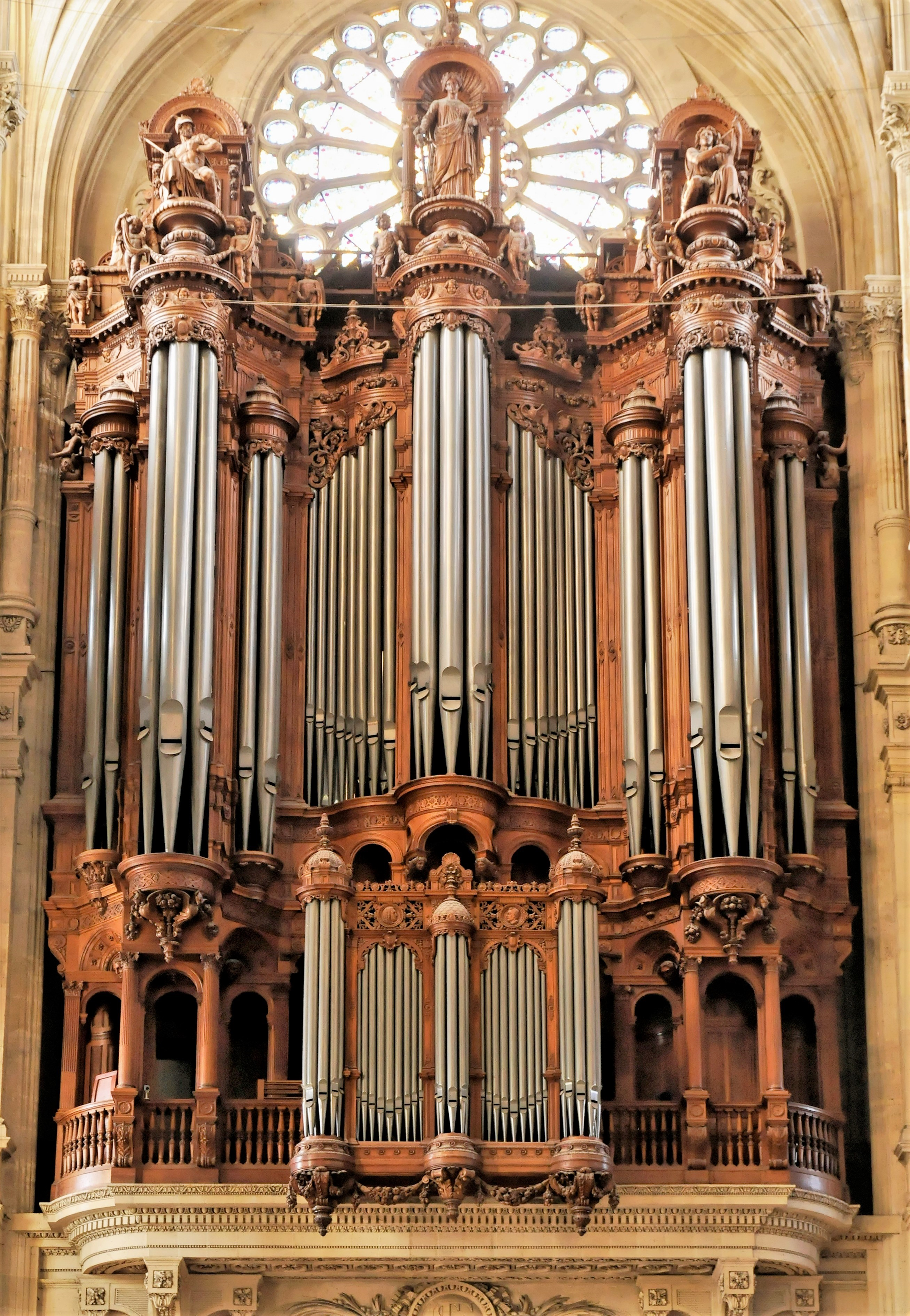 Great organ of Église Saint-Eustache, Paris. Organ by Van den Heuvel, 1989; organ case made after a design by Victor Baltard.